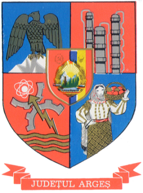 Communist coat of arms of Argeș County, Socialist Republic of Romania.